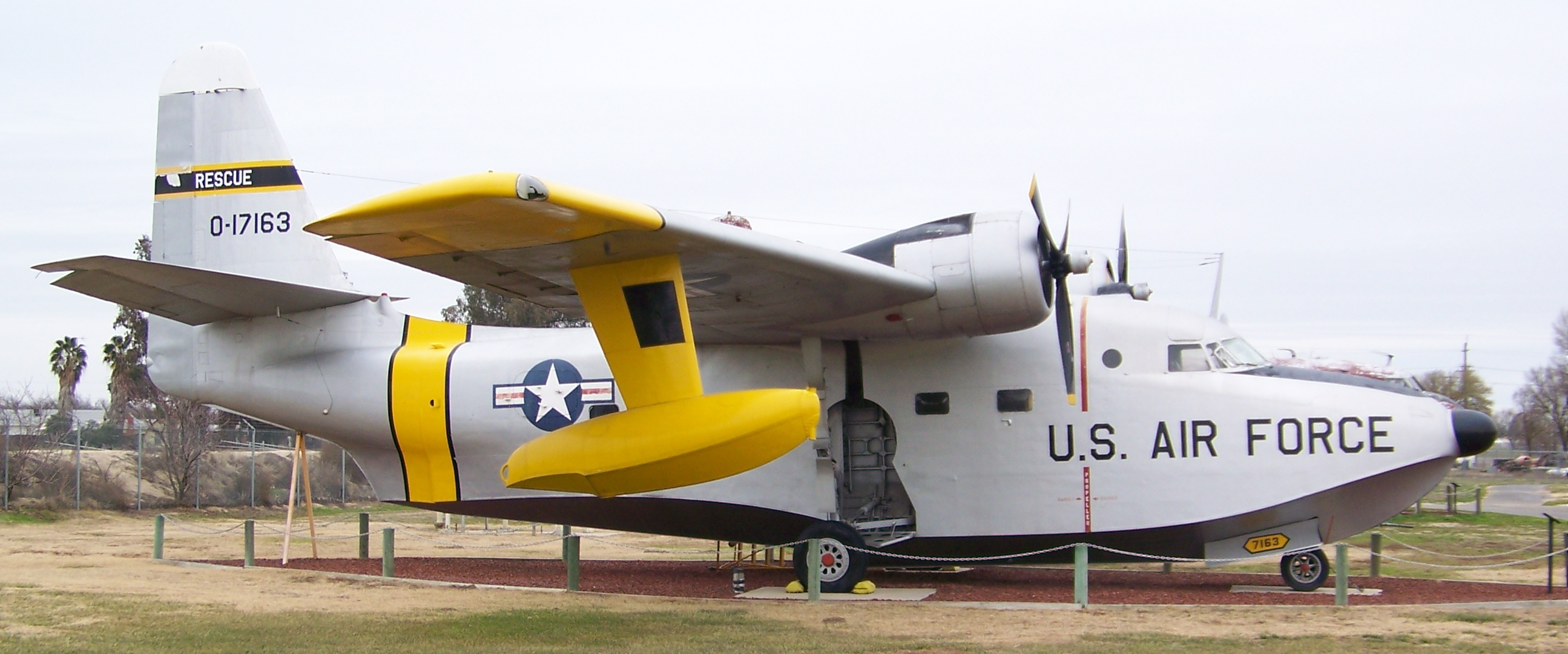 A Grumman HU-16B Albatross on display at the Castle Air Museum in Atwater, California.